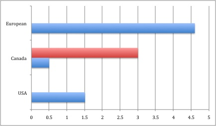 Figure 3. The incidence of obstetrical brachial plexus palsy (OBPP) where USA is about 1.51 cases per 1000 live births, a Canadian study, where the incidence was between 0.5 and 3 injuries per 1000 live Birth, and European countries, such as a Dutch study reported an incidence of 4.6 per 1000 births (Smania, 484).